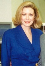 Originally entitled "Bob Finch & Nancy Stafford". Nancy Stafford - photo cropped to remove other people from shot